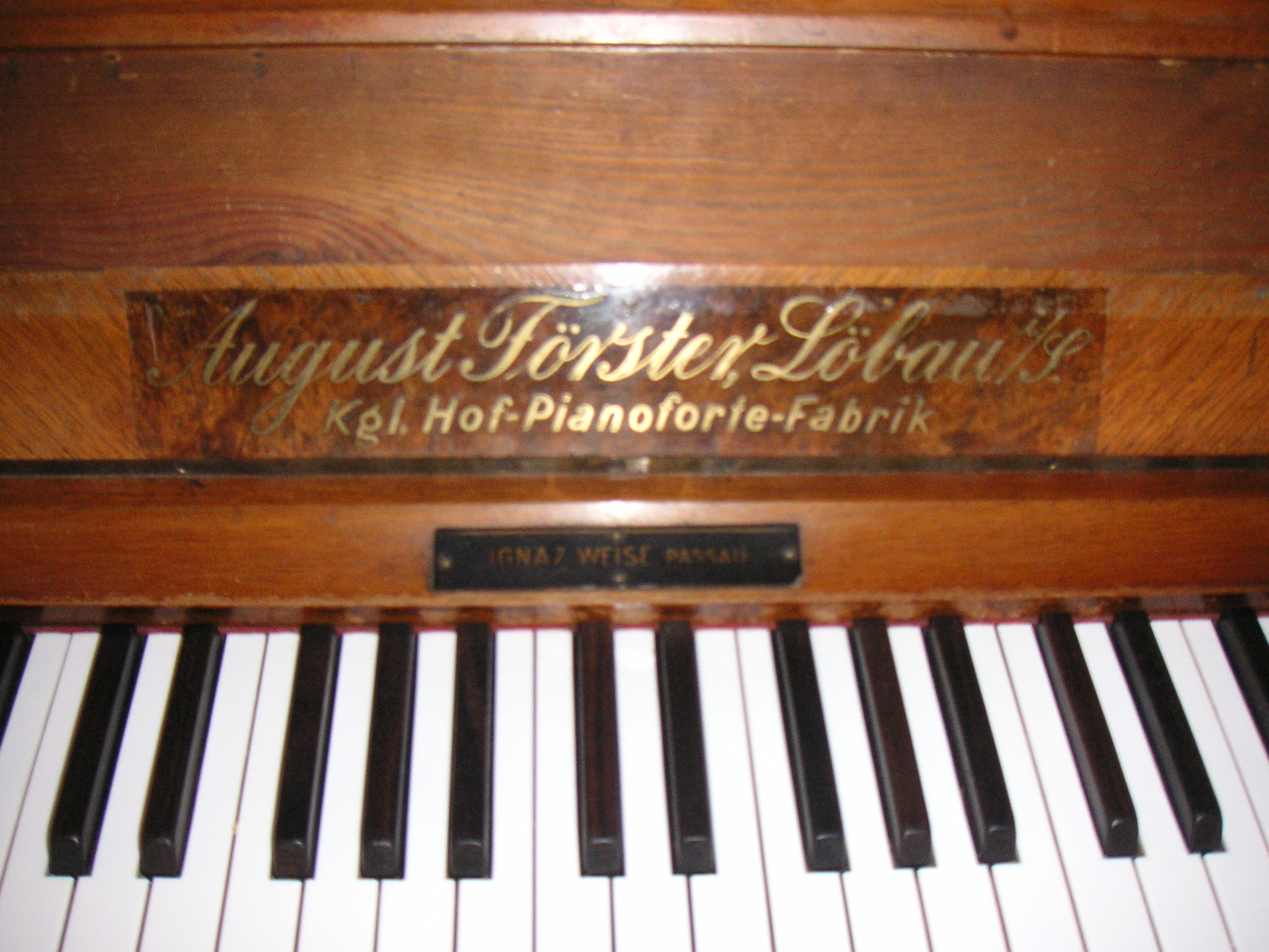 piano, name label.